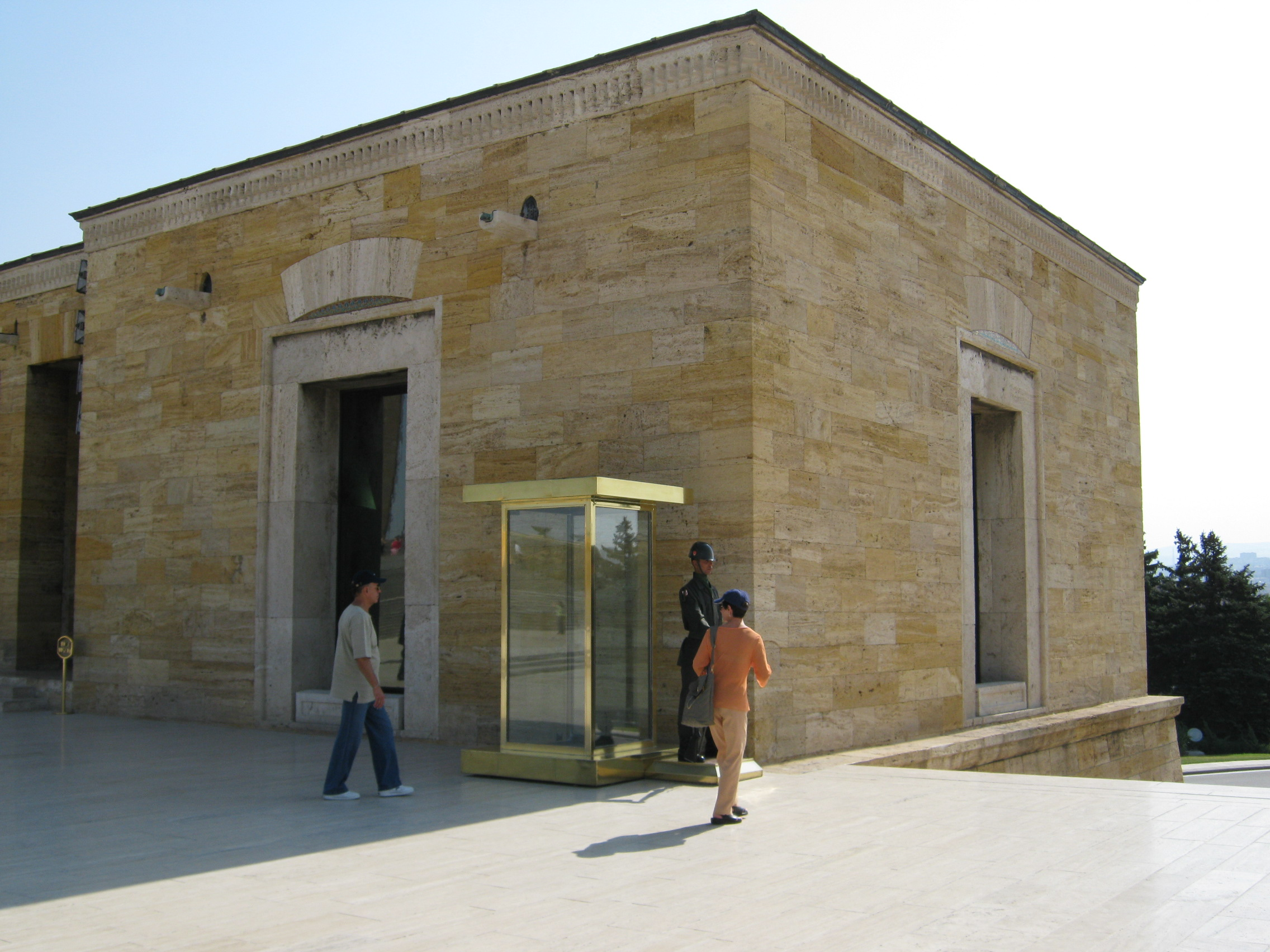 Museum of Ataturk in Ancara, Muzej Ataturka, Ankara Ancara, Turkey